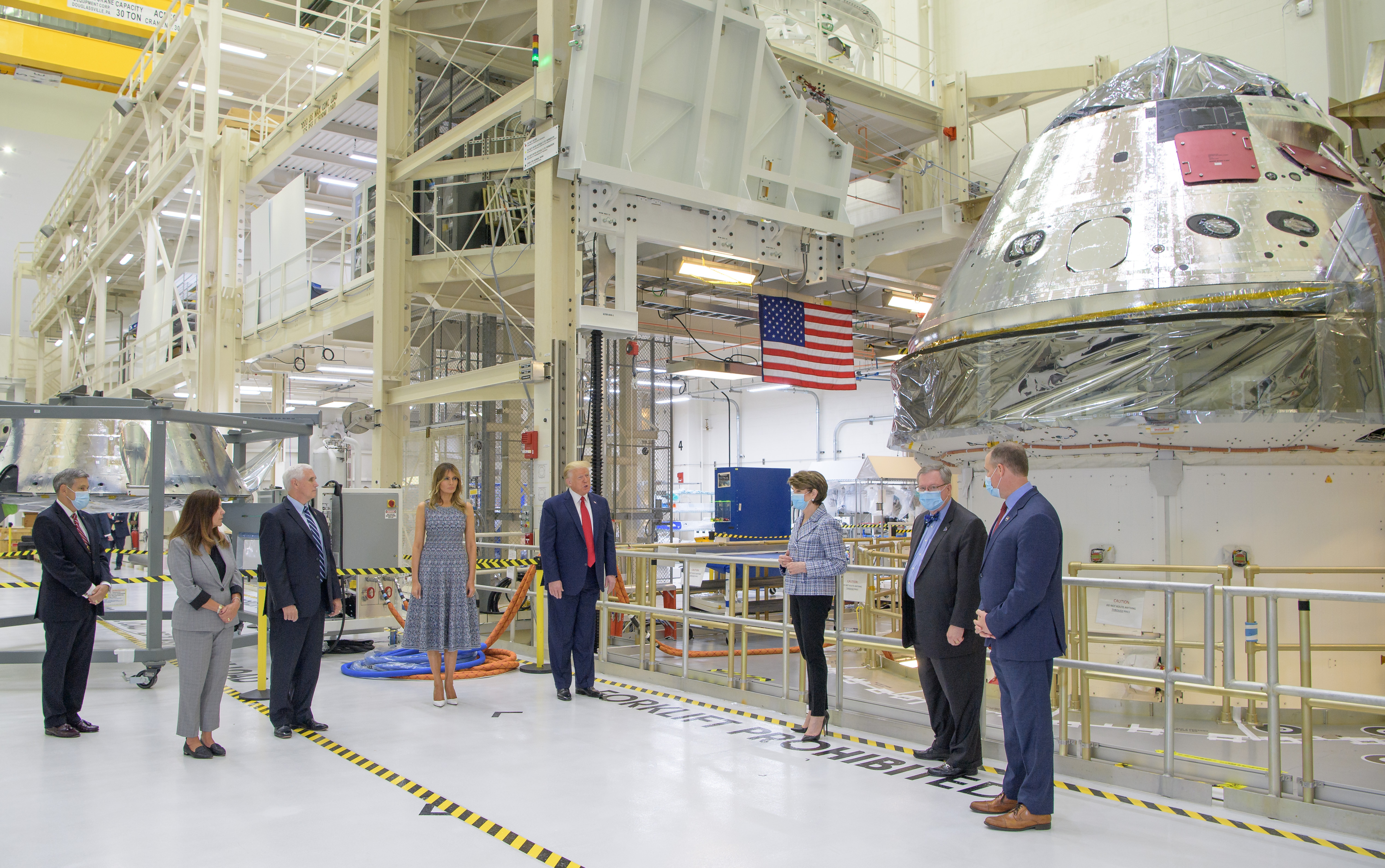 President Donald Trump, First Lady Melania Trump, Vice President Mike Pence, Second Lady Karen Pence, along with Kennedy Space Center Director Bob Cabana, left, Marillyn Hewson, Chief Executive Officer, Lockheed Martin, Mike Hawes, VP of Human Space Exploration and Orion Program Manager at Lockheed Martin Space, and NASA Administrator Jim Bridenstine, right, are seen by the Artemis I capsule during a tour of the Neil A. Armstrong Operations and Checkout Building following the departure of NASA astronauts Robert Behnken and Douglas Hurley for Launch Complex 39A to board a SpaceX Crew Dragon spacecraft for launch, Wednesday, May 27, 2020, at NASA’s Kennedy Space Center in Florida. NASA’s SpaceX Demo-2 mission is the first launch with astronauts of the SpaceX Crew Dragon spacecraft and Falcon 9 rocket to the International Space Station as part of the agency’s Commercial Crew Program. The test flight serves as an end-to-end demonstration of SpaceX’s crew transportation system. Today’s launch of Behnken and Hurley was scrubbed due to weather and is now scheduled for 3:22 p.m. EDT on Saturday, May 30, from Launch Complex 39A at the Kennedy Space Center. A new era of human spaceflight is set to begin as American astronauts once again launch on an American rocket from American soil to low-Earth orbit for the first time since the conclusion of the Space Shuttle Program in 2011. Photo Credit: (NASA/Bill Ingalls)